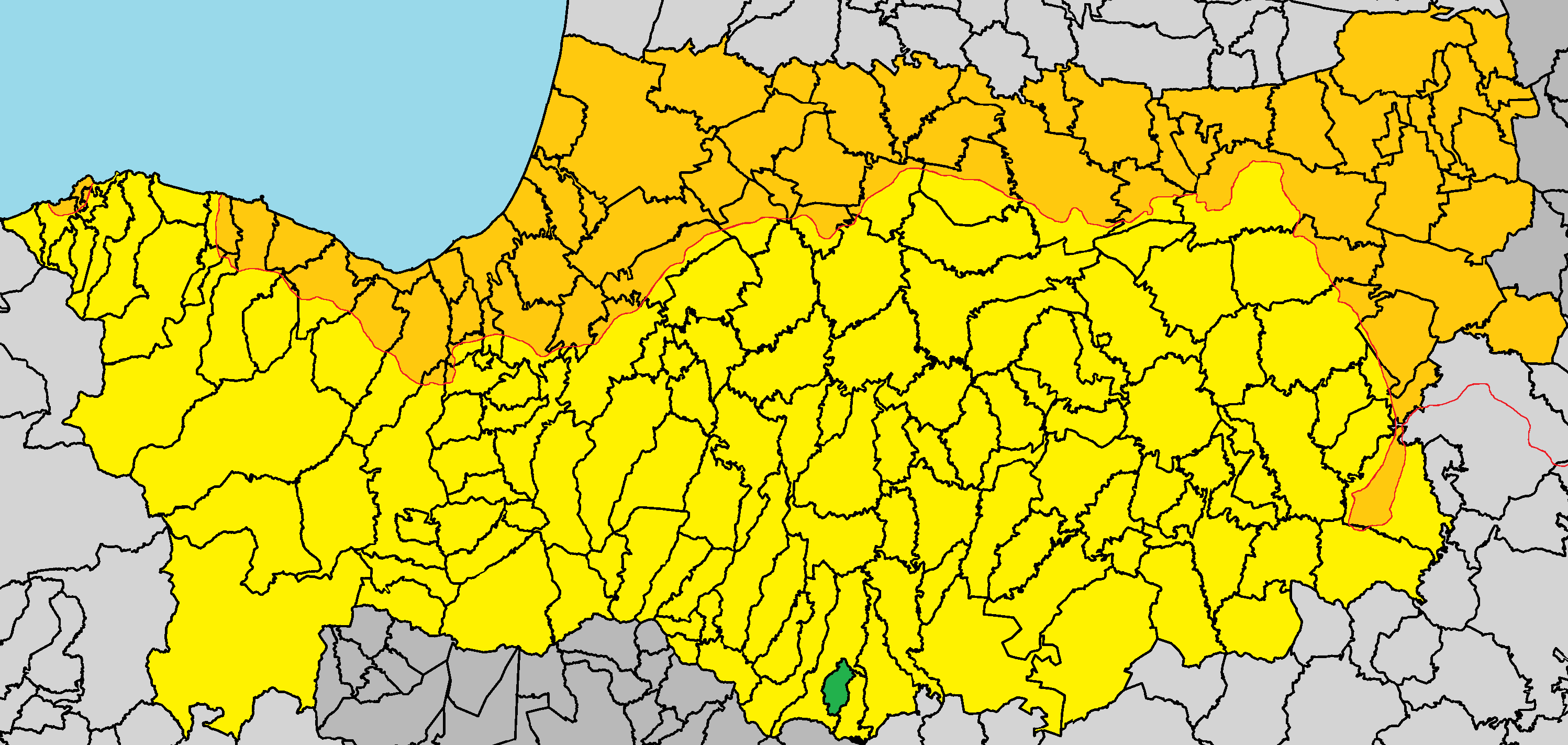 Apliki in Nicosia District.